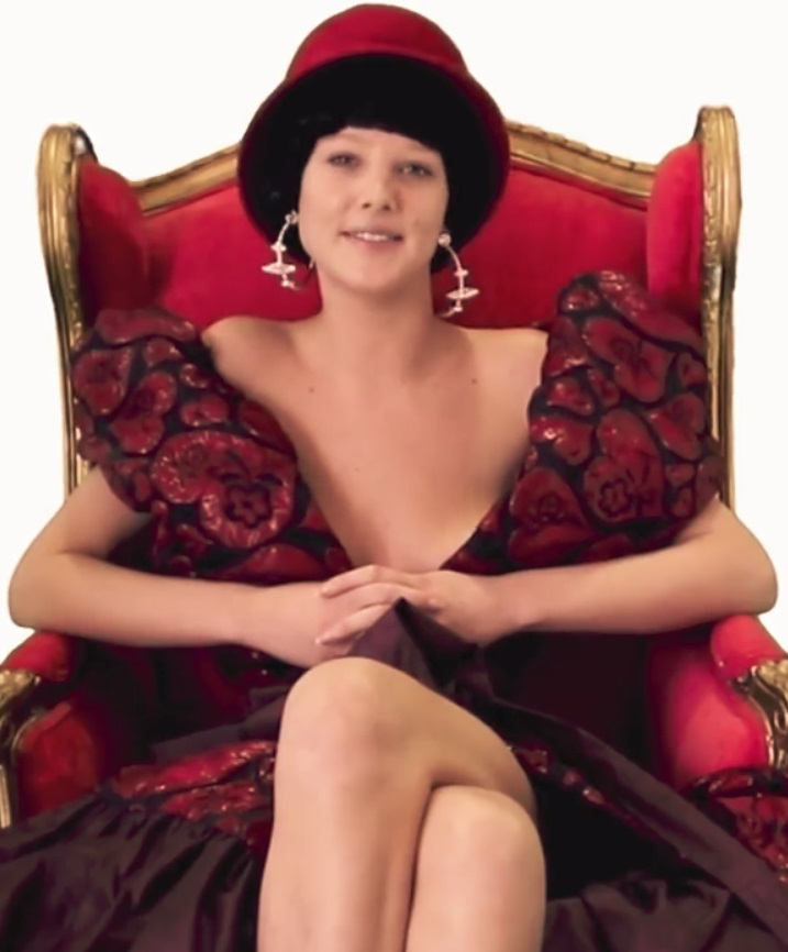 English model Eliza Cummings on Big Sister Episode 2 - Edie Campell, rumours - LOVE Edie Campbell and the rest of the 17.5 girls discuss those malicious rumours...